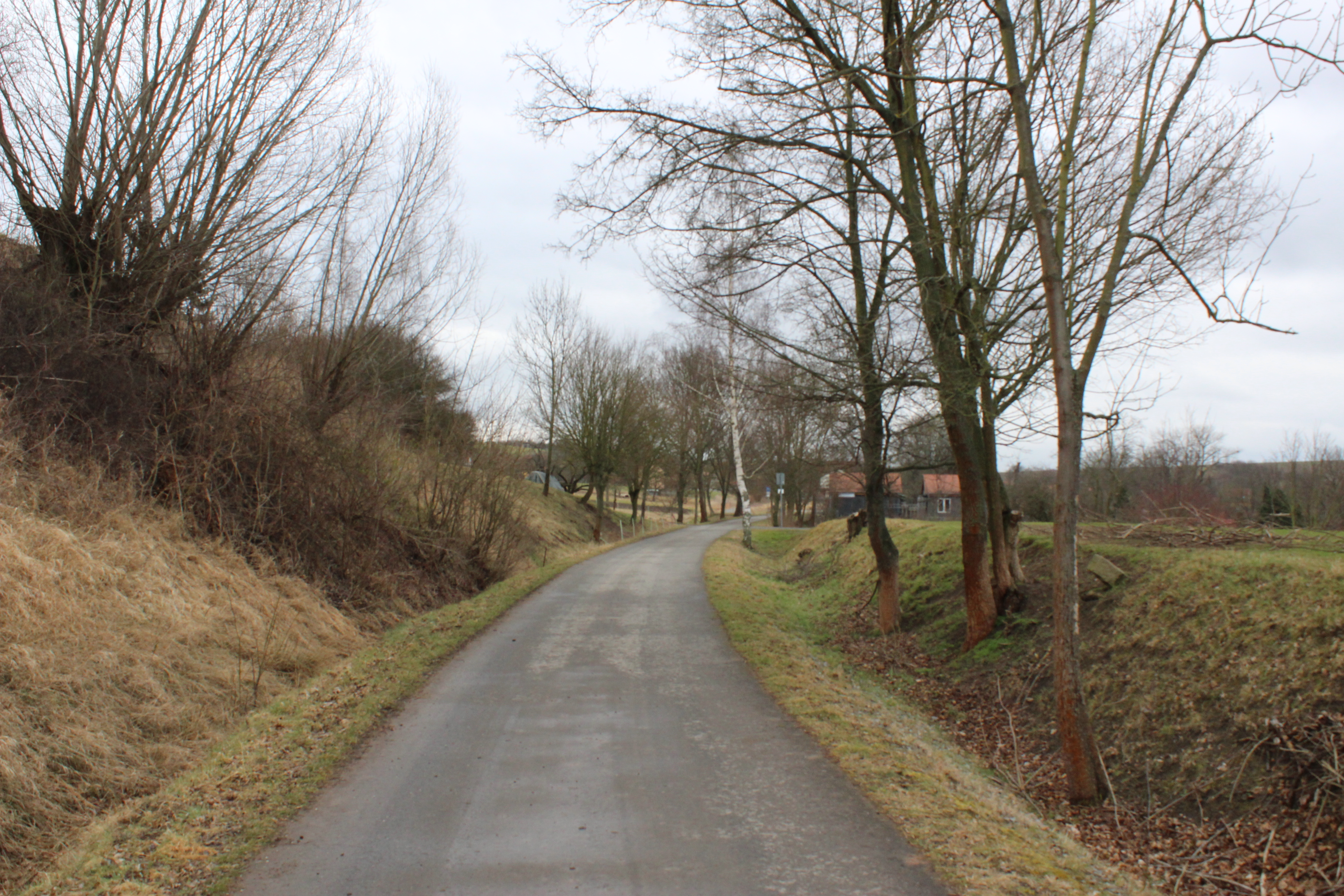 railway line Porstendorf-Crossen in Graitischen